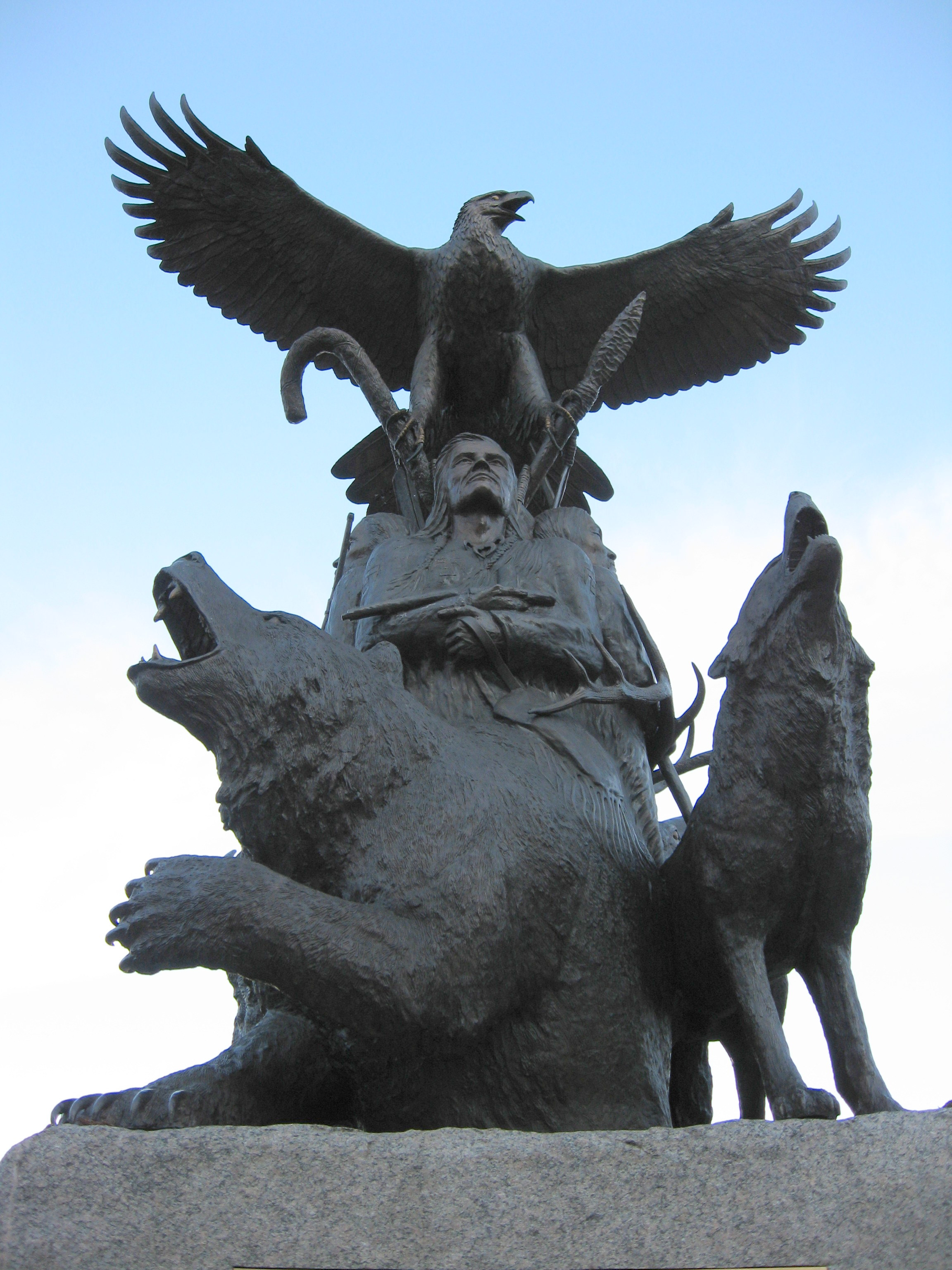 Monument to aboriginal war veterans in Confederation Park, Ottawa, Canada.